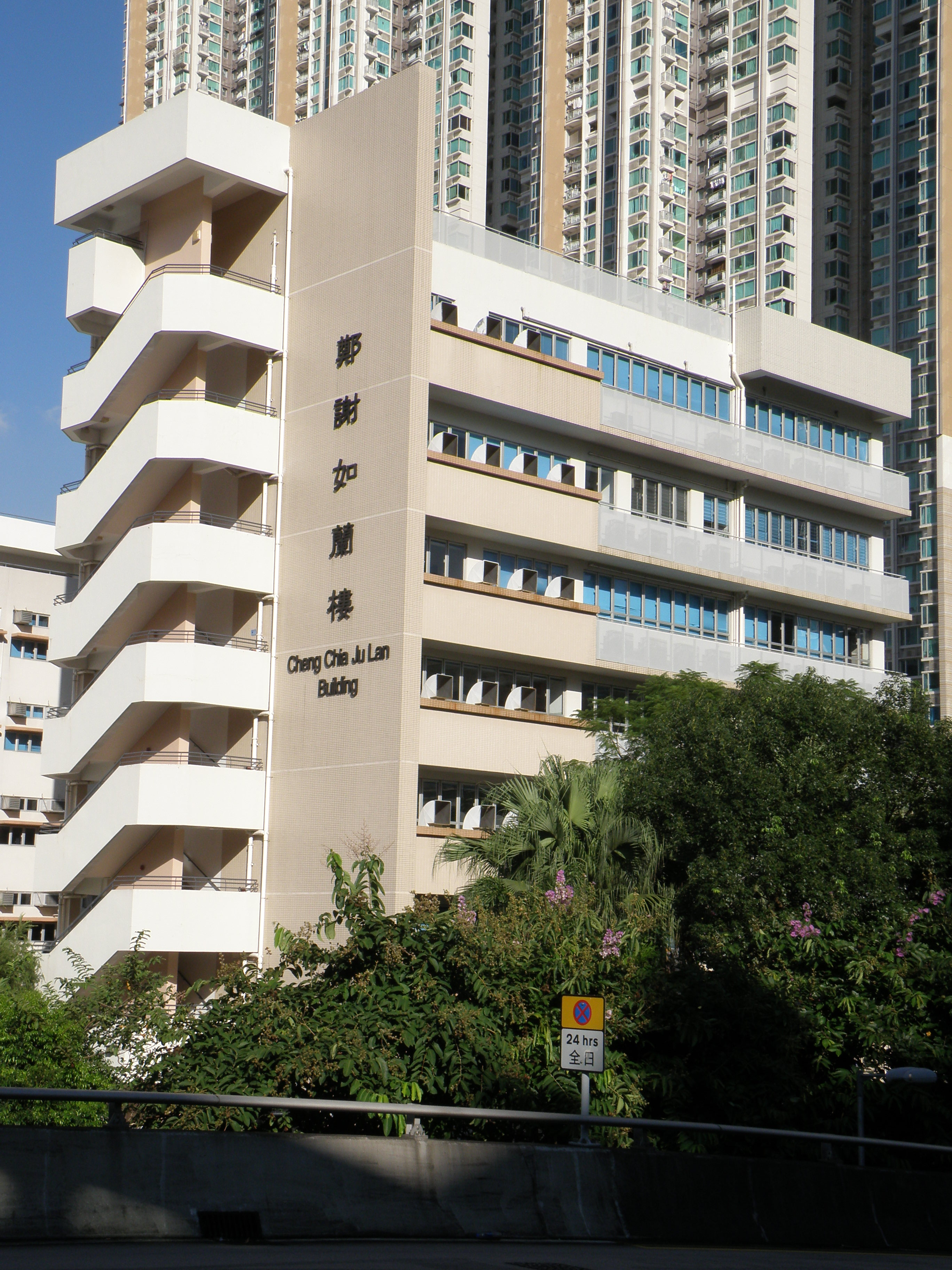 Cheng Chia Ju Lan Building of Christian Alliance Cheng Wing Gee College, Tai Wai, Hong Kong. The buildings in the background are part of Festival City.